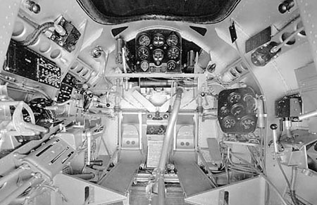 Seversky P-35A cockpit